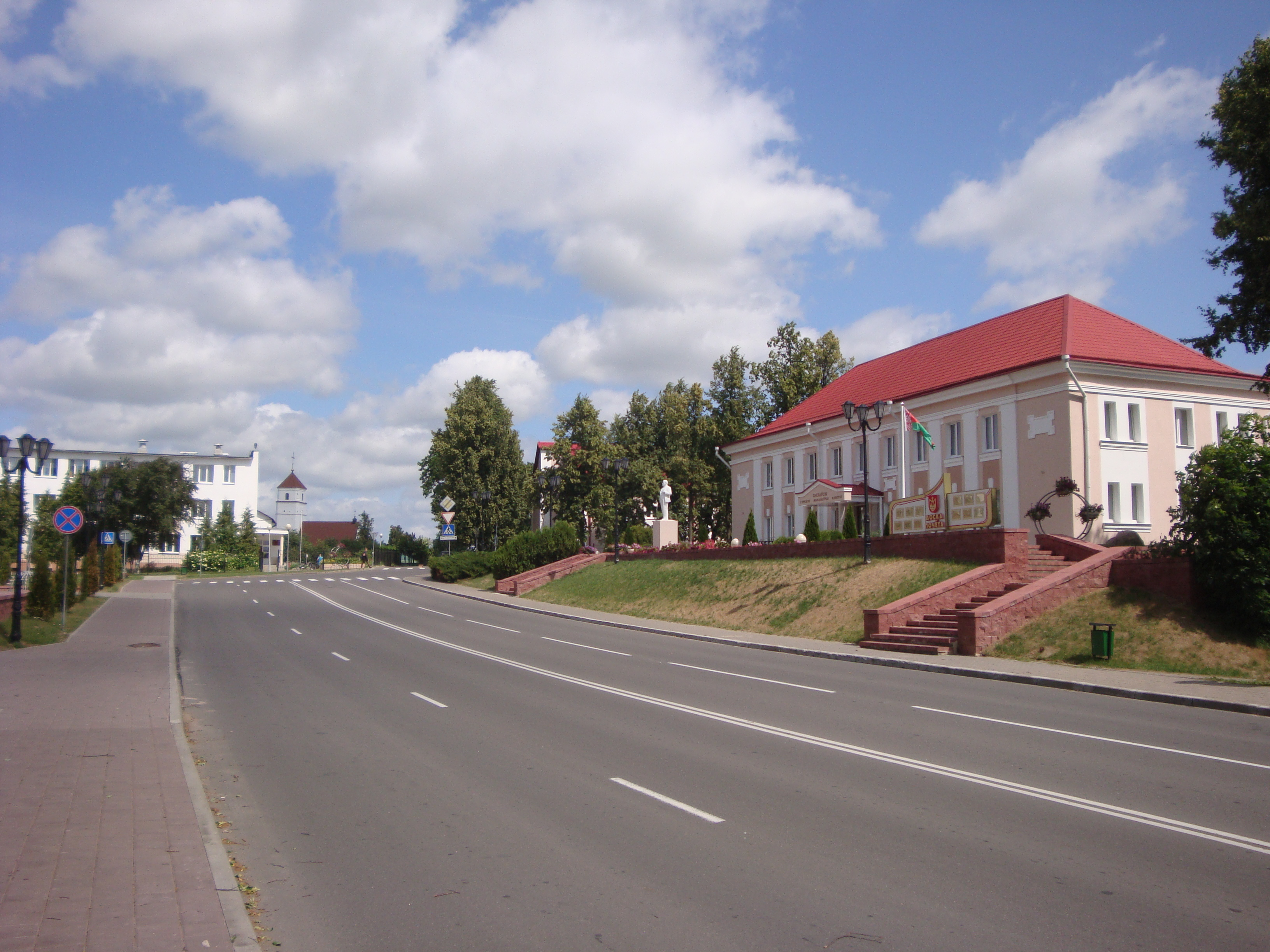 Vialikaja street in Zaslawye town (Minsk oblast, Belarus). Photoed 2015 AD